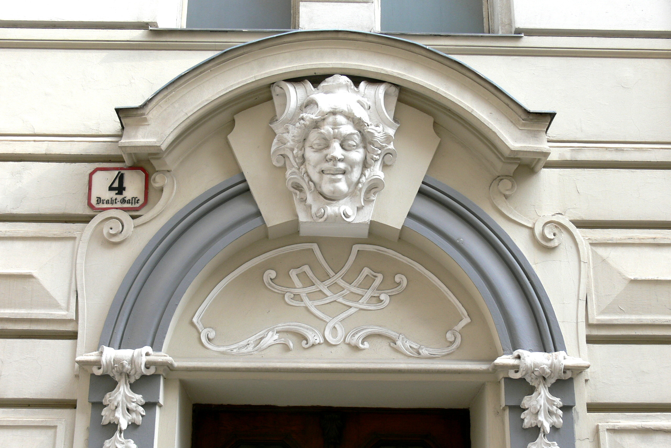 Drahtgasse 4, Vienna. Mascaron.